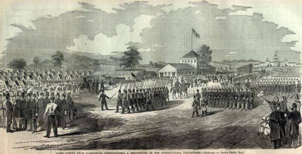 Camp Curtin, a major Union Army training camp, was located in Harrisburg, Pennsylvania during the American Civil War, and was depicted in this "Harper's Weekly" illustration in September 1862. More than 300,000 regular and volunteer soldiers passed through this camp between its opening on April 18, 1861 and its closure in November 1865.